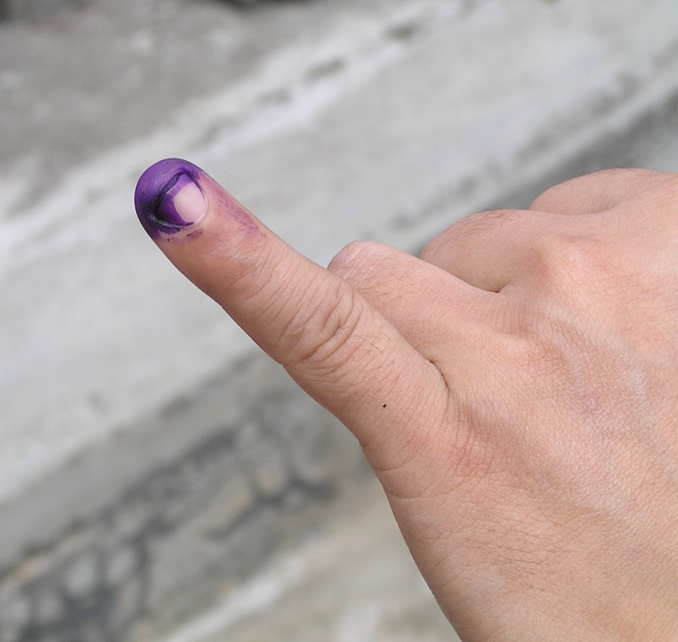 The indelible ink used to prevent multiple voting in the 2009 Indonesian legislative elections